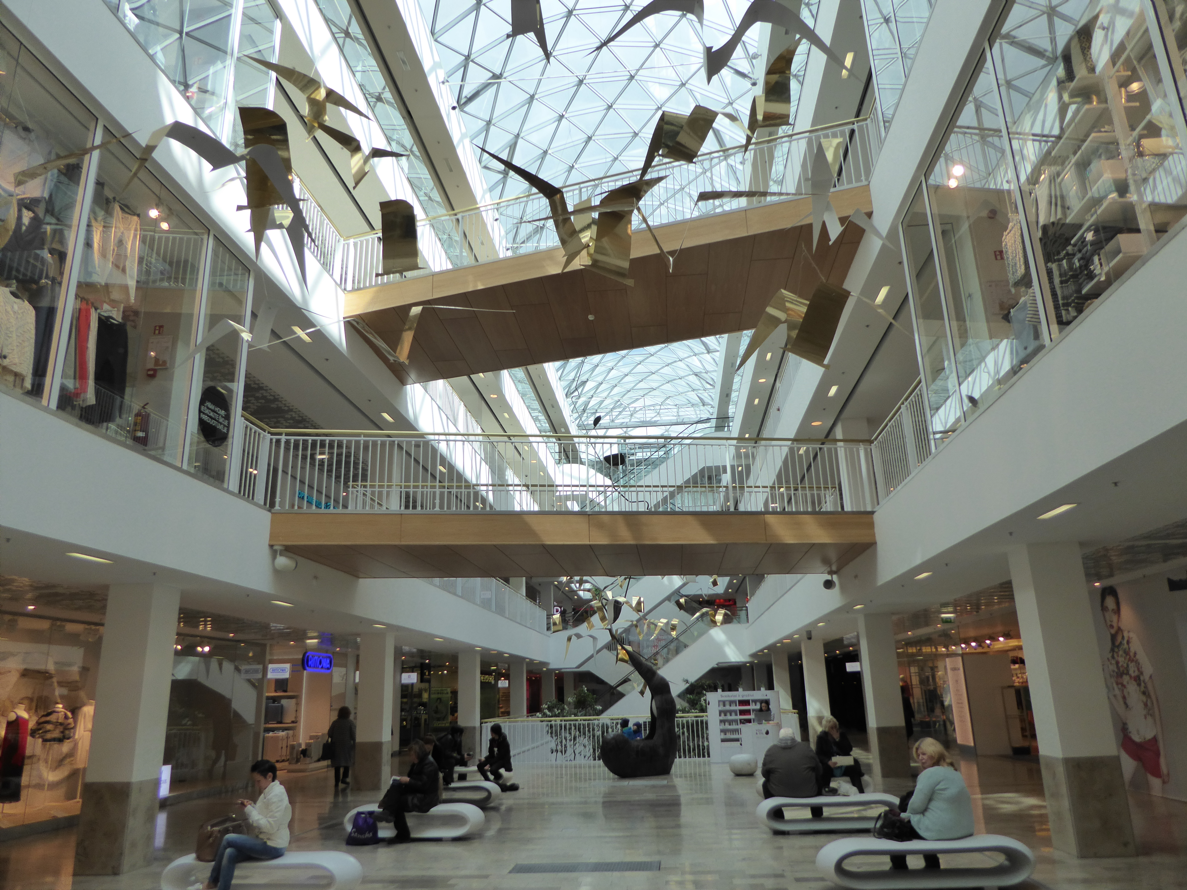 GO9 shopping centre, Gediminas Avenue, Vilnius, Lithuania, April 2015